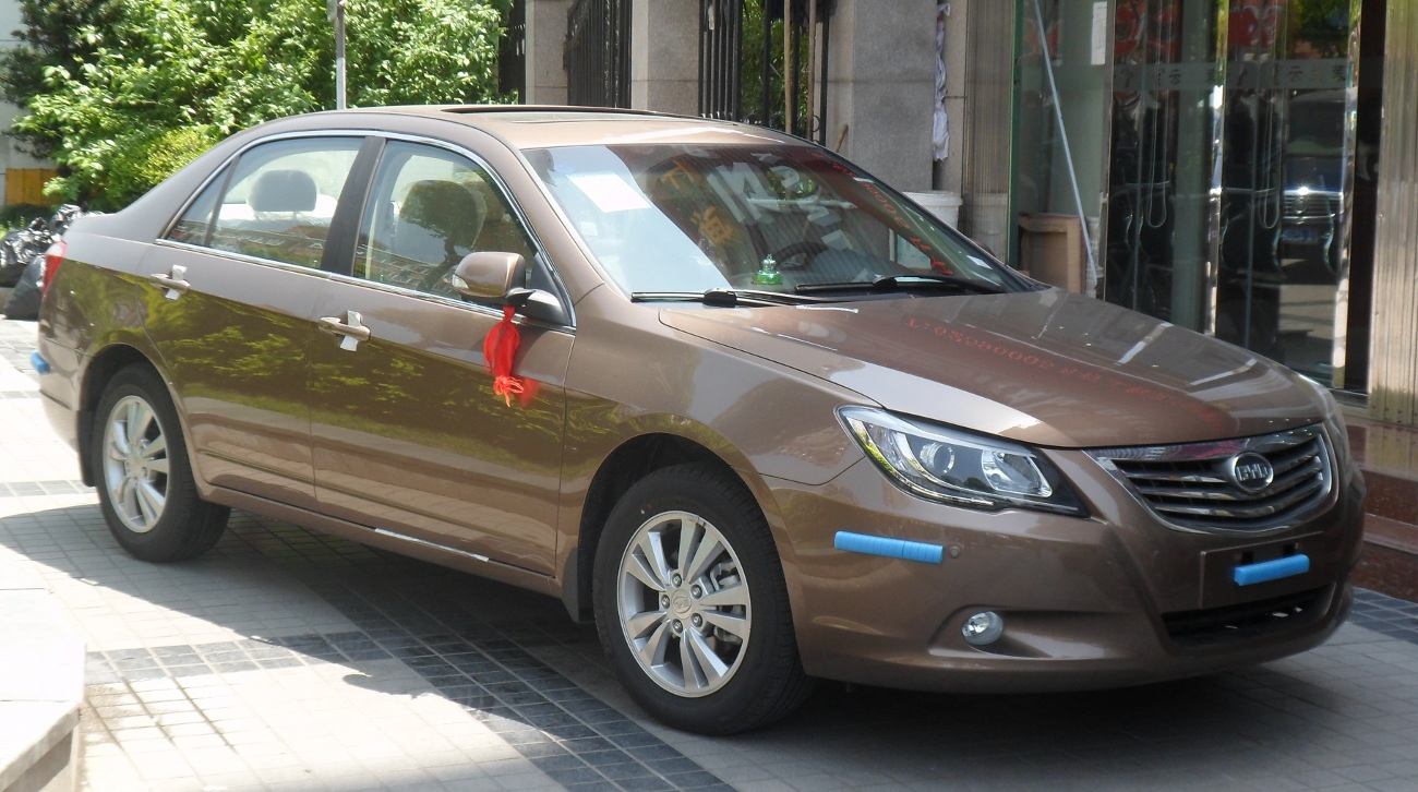 BYD G6 photographed in Shanghai, China.